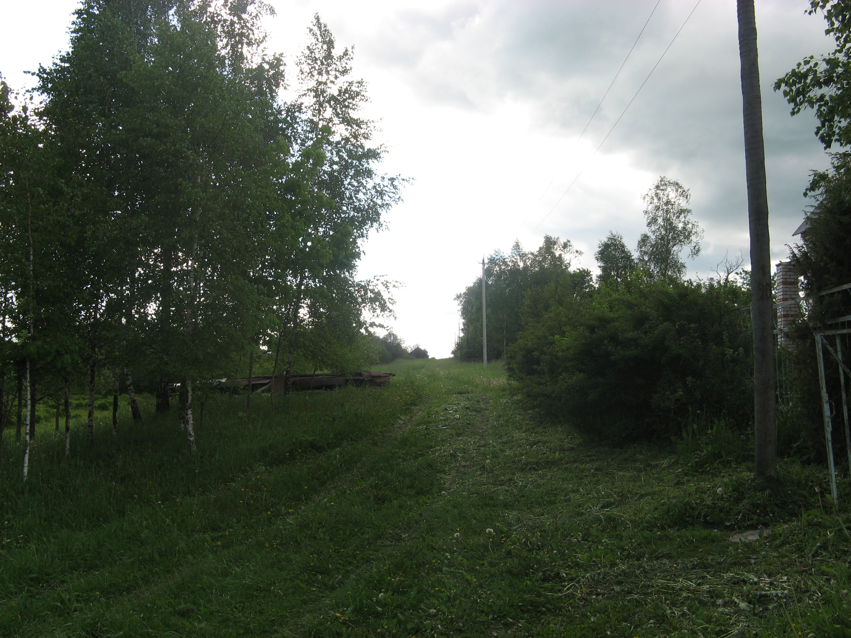 Street in Luchki